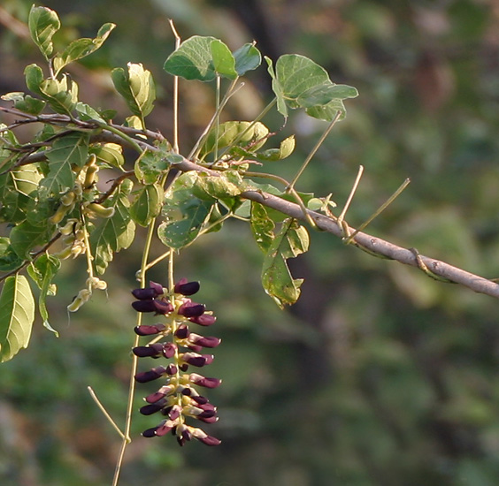 Velvet bean, Cowitch, Cowhage or Konch Mucuna pruriens in Kawal Wildlife Sanctuary, Andhra Pradesh, India.